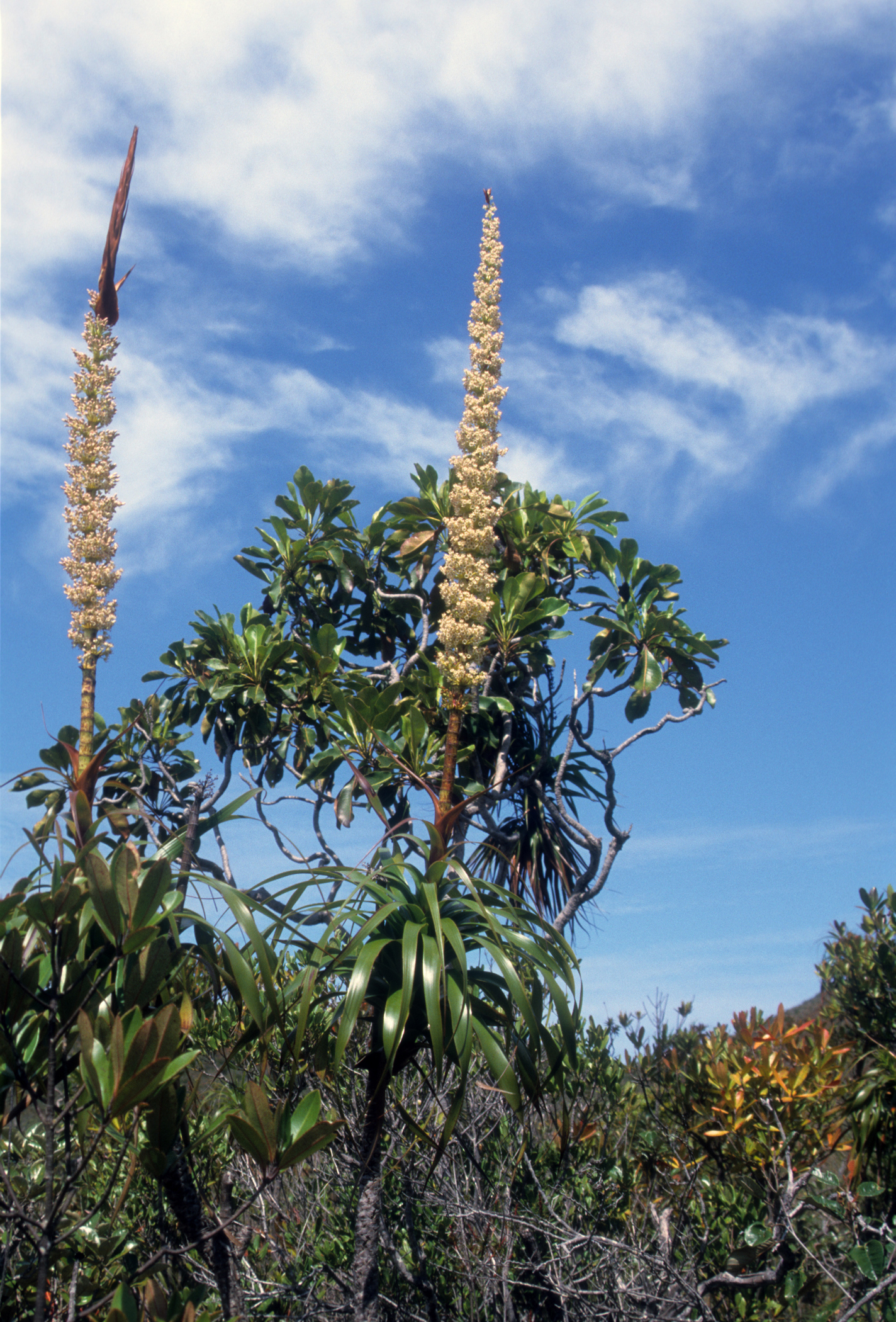 Mt. Dzumac, New Caledonia, 30 Sep 2000. from slide.